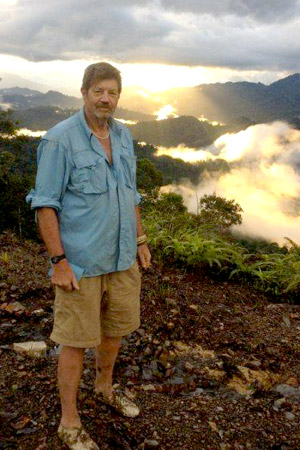 Photo of Alex Shoumatoff, taken in Borneo, by his son Andre Shoumatoff.